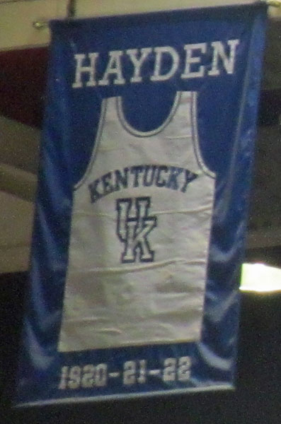 A jersey honoring Basil Hayden hanging in Rupp Arena in Lexington, Kentucky